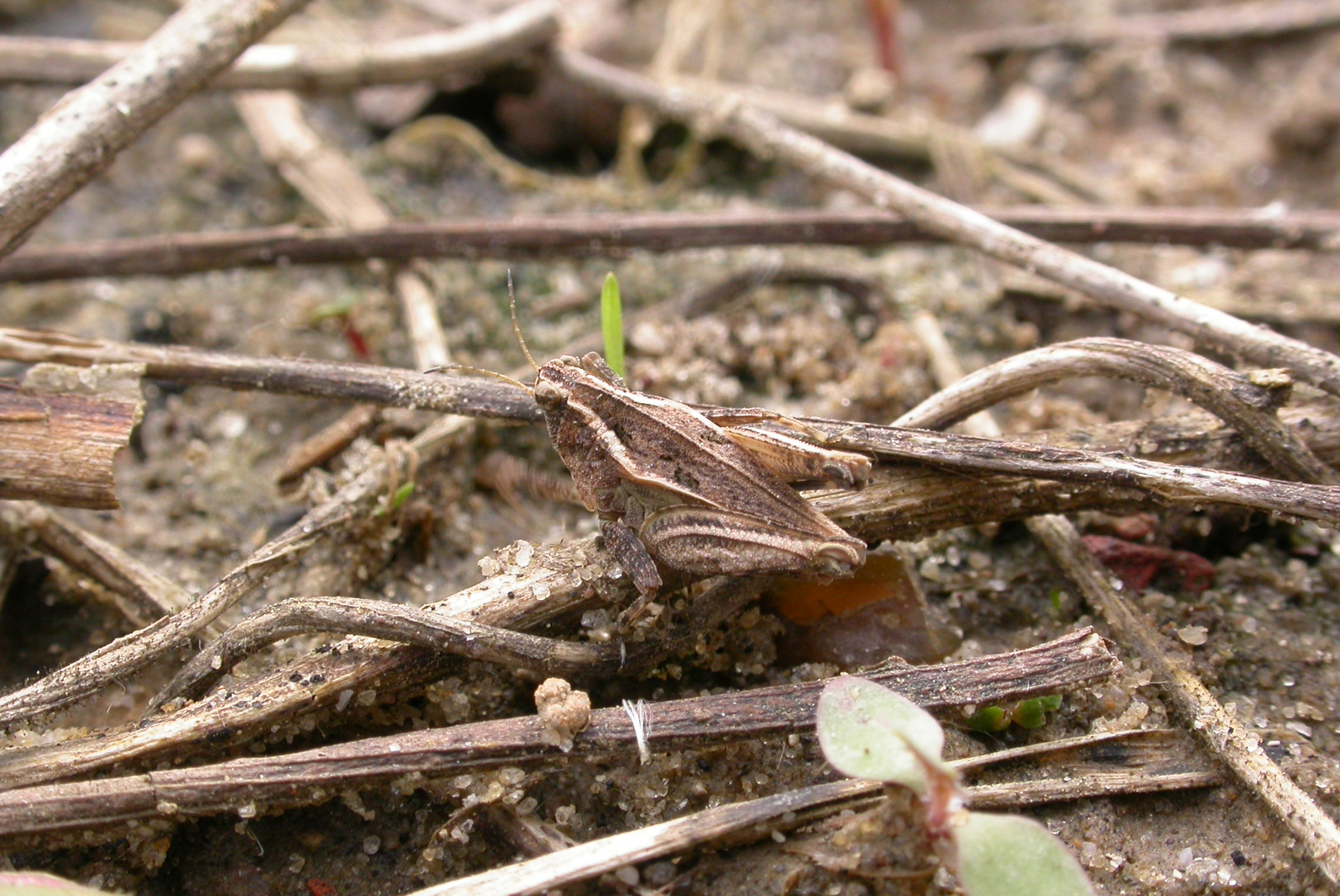 Tetrix tenuicornis